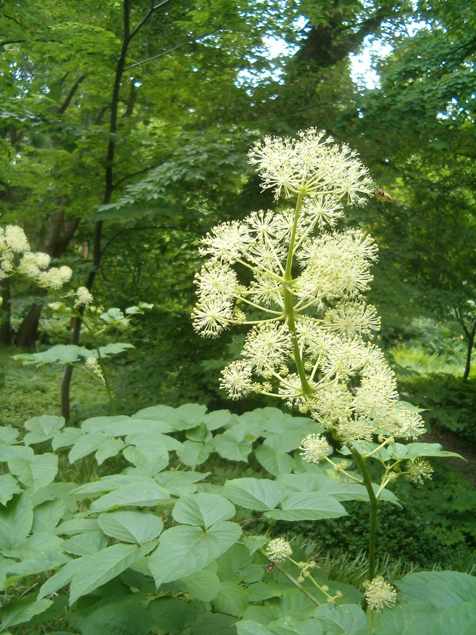 At Botanical Gardens Berlin-Dahlem Species Aralia cordata